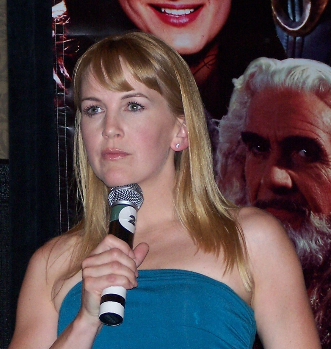 Renee O'Connor on stage at a Xena Convention in NJ. Photographed by me in 2007